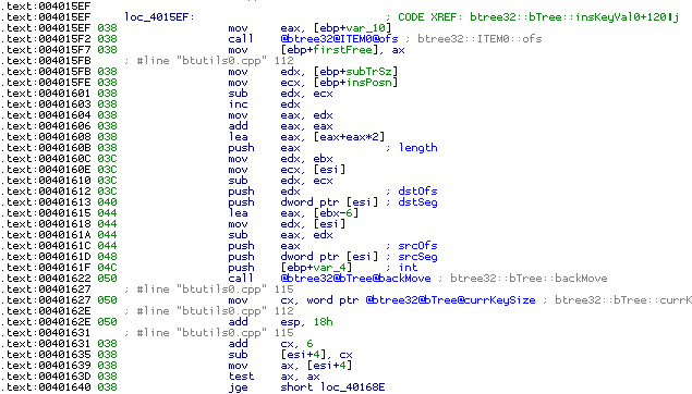 Изходен код от дисасемблер